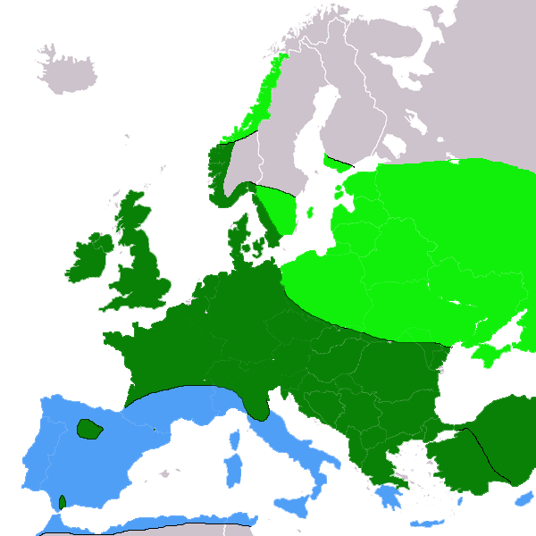 Grey Heron (Ardea cinerea), map of Europe. Light green= summer, dark green= all year, blue= winter.